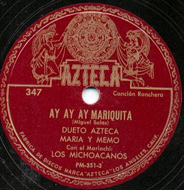 Azteca 78 label